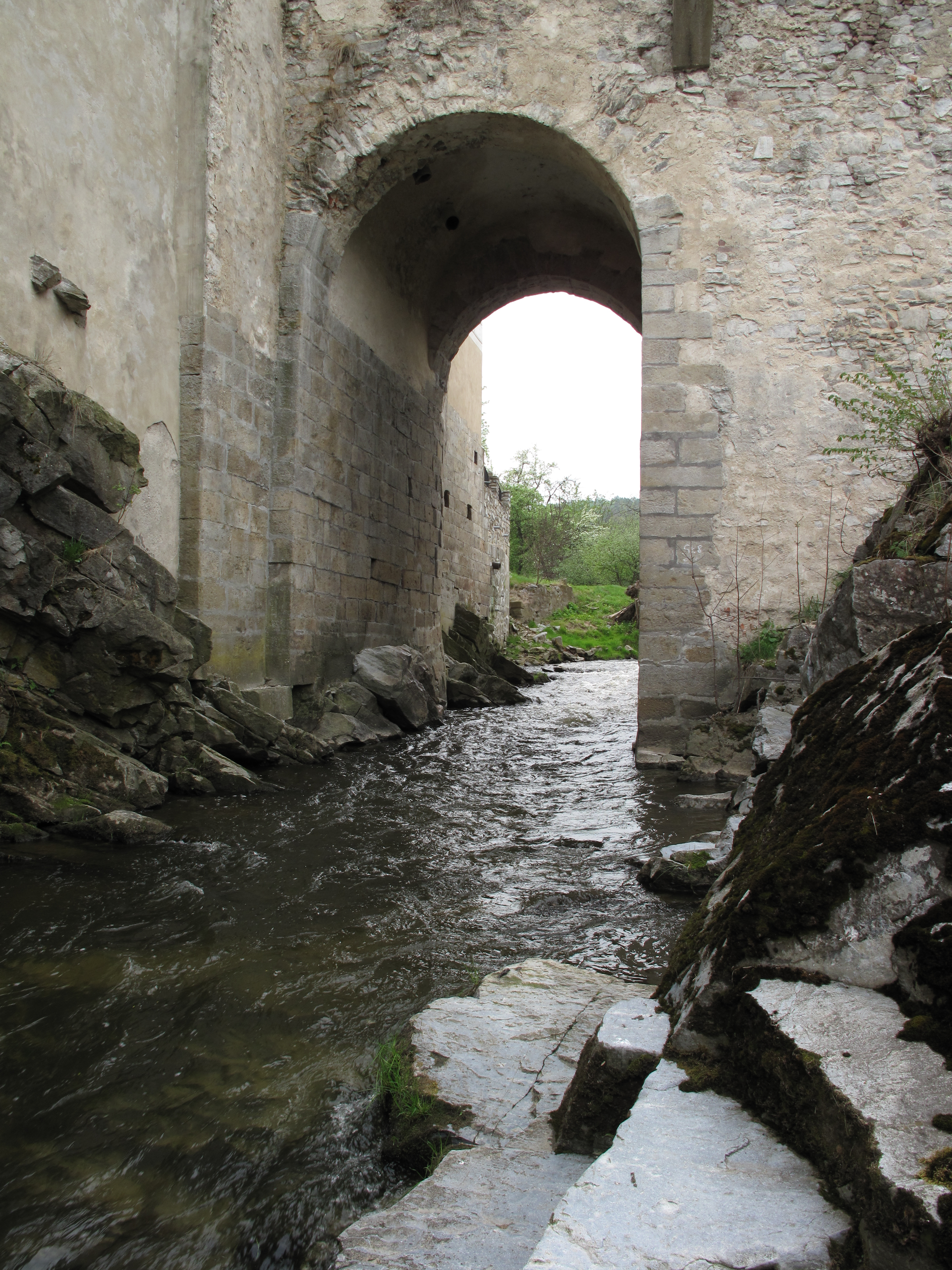 Polečnice, Český Krumlov, Czech Republic.